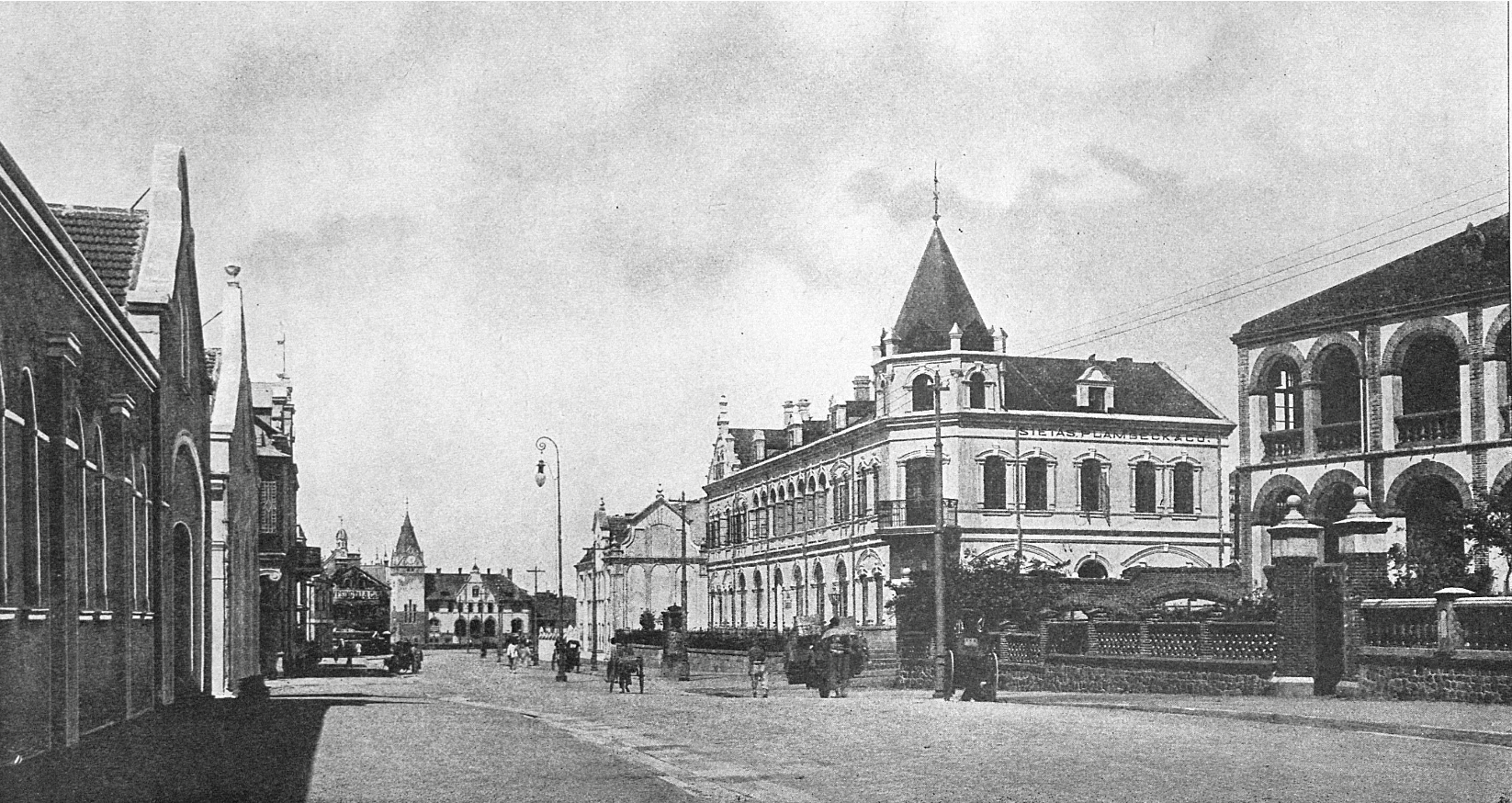 Hohenzollern Street Tsingtao